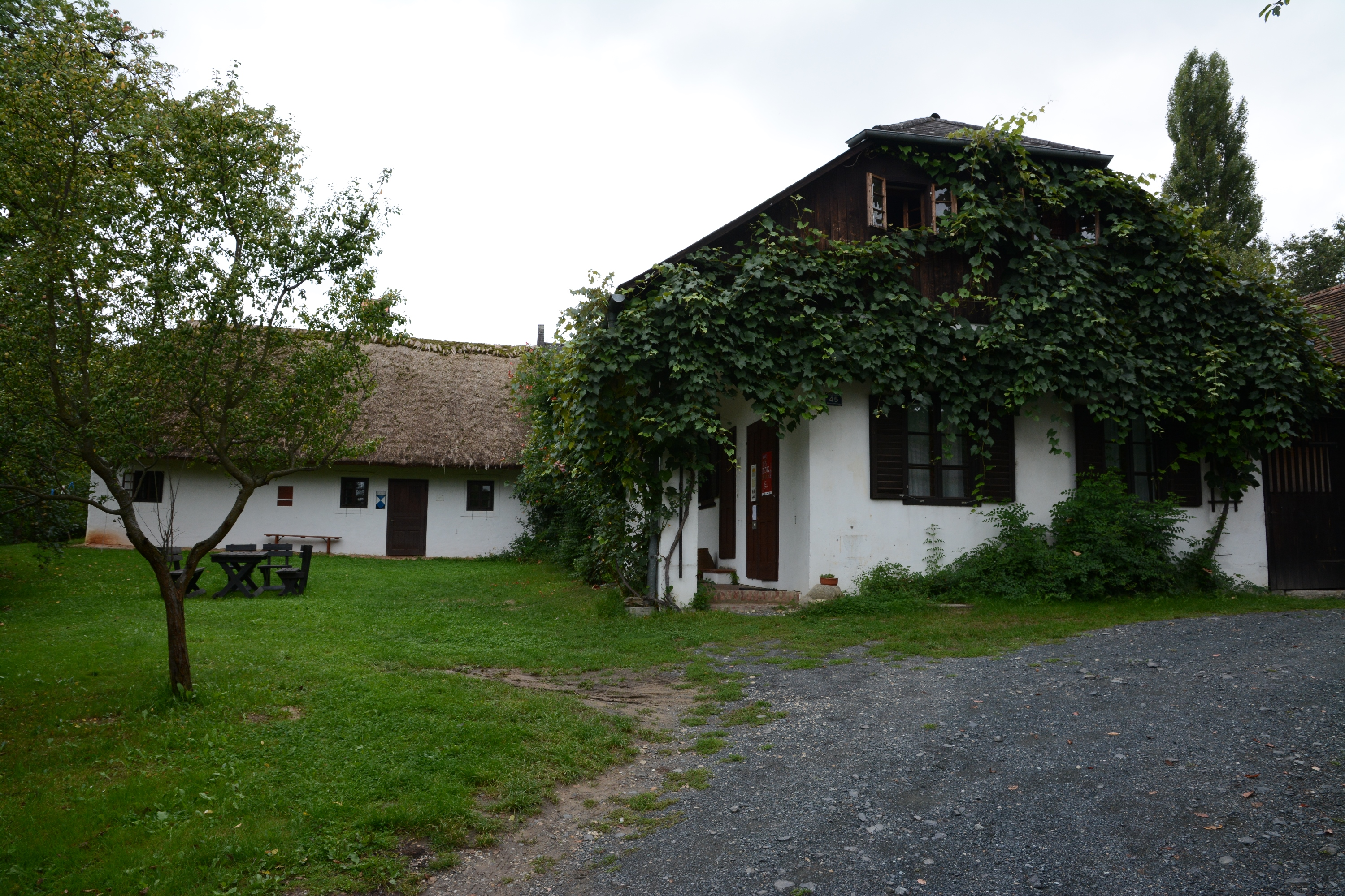 Neumarkt 45